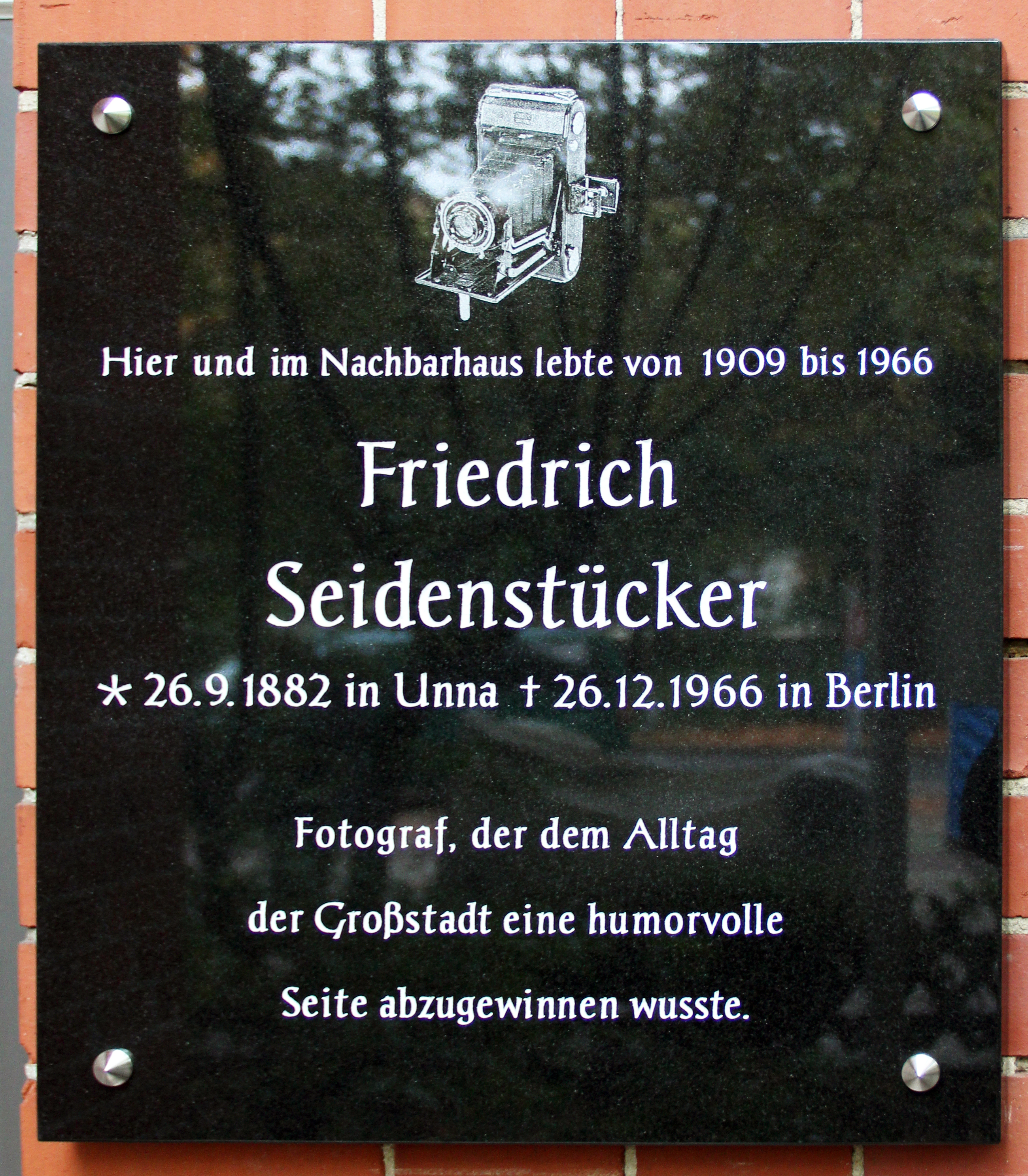 Memorial plaque, Friedrich Seidenstücker, Bundesplatz 17, Berlin-Wilmersdorf, Germany